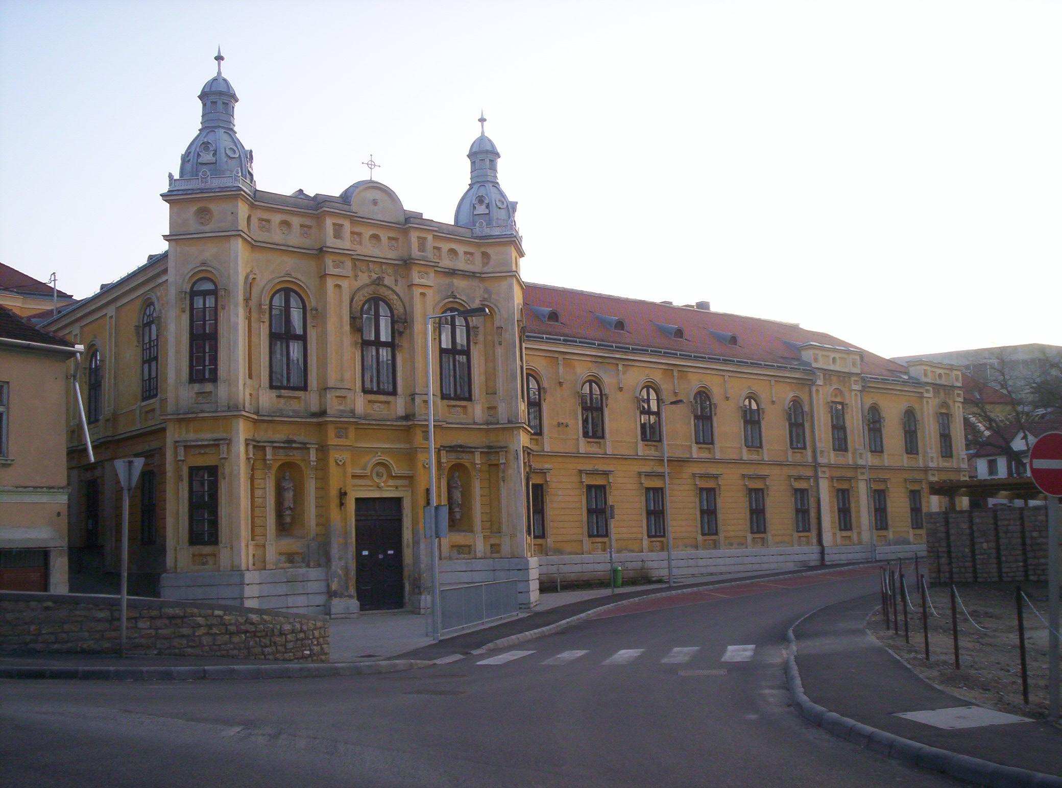 Description: Ranolder János Square, Veszprém